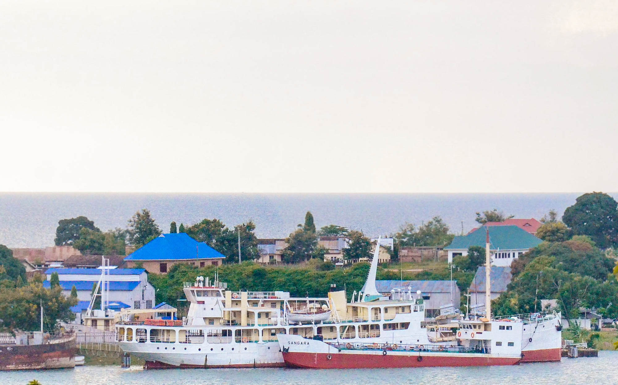 Mv.Liemba was the ship used as a military submarine by the Germans during World War I and was known then as Graf von Goetzen. The Germans tied the navy with big guns to increase its capacity and it became a large armored ship on the lake. It was sunk into the lake by the Germans themselves after the war in 1916 but eight years later it was revived and renamed Liemba. Today it is one of the oldest ships in the world still serving Lake Tanganyika. It was developed in 1913 and is now estimated to be 106 years old as a major tourist attraction in Kigoma. This is an image with the theme "Africa on the Move or Transport" from: Tanzania